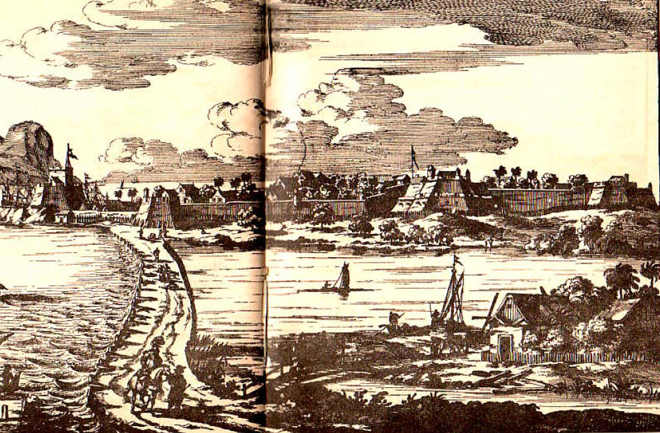 Galle fort as seen from the bazaar. Please note that this diagram shows the fort of Santa Cruz de Gale after its capture from Portuguese and before the construction of new Dutch bastions. Dutch have already shifted the main gate to the sea side.